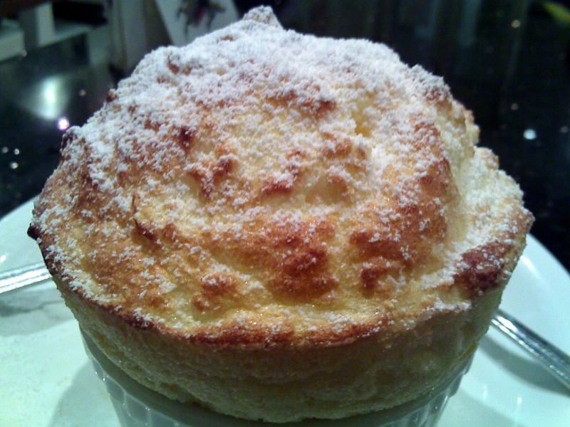 an original French dessert Soufflé